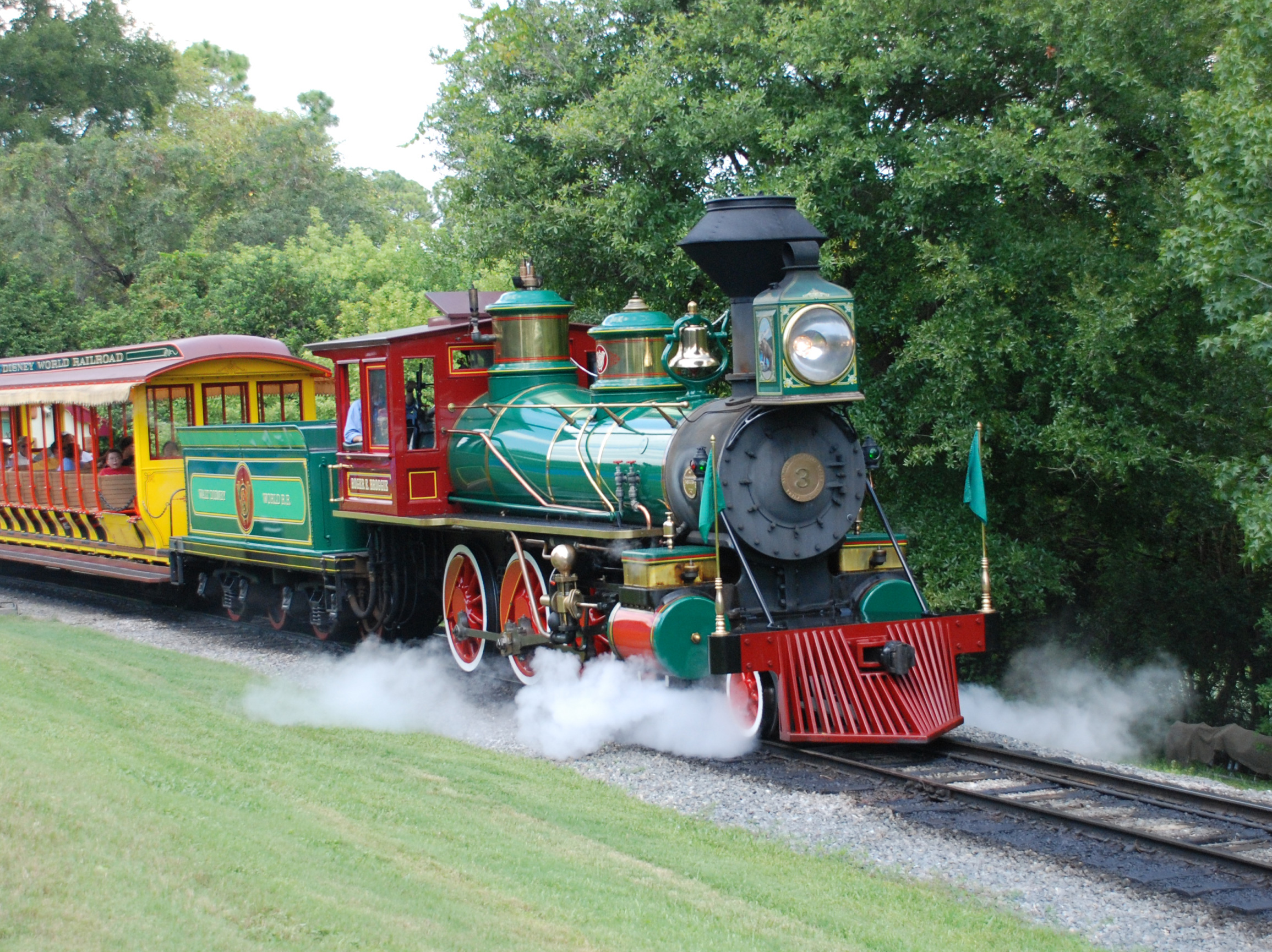 The Roger E. Broggie pulling its 300 series yellow coaches and blowing steam.